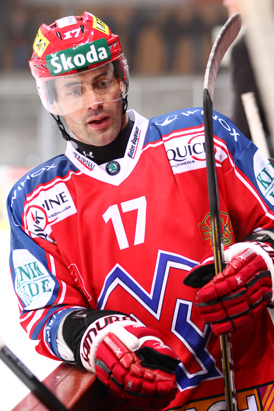 Sébastien Bordeleau, Icehockey Player